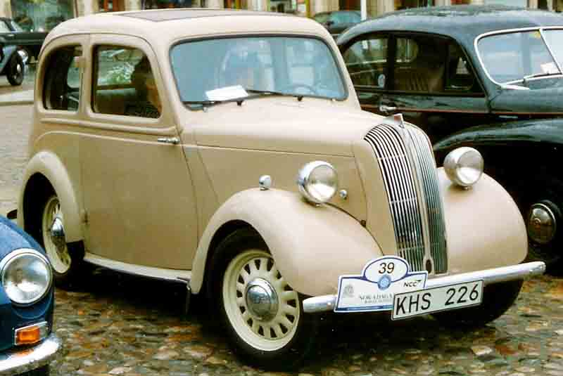 Standard 8hp Saloon 1946. The absence of bonnet louvres on the 8hp model provides visual differentiation from the pre-war Standard Flying Eight.